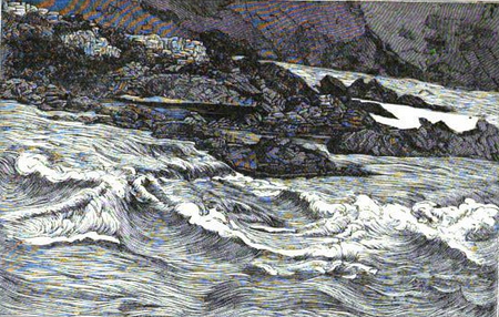 Yellala Falls, Democratic Republic of the Congo, from an 1884 book